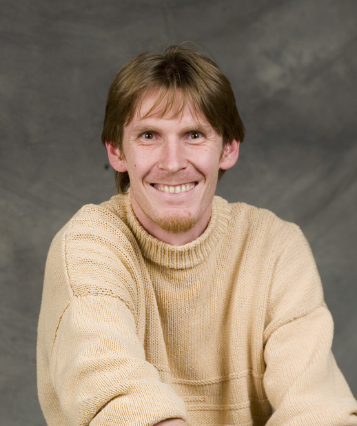 Patrik Jandak Slovak born Canadian photographer